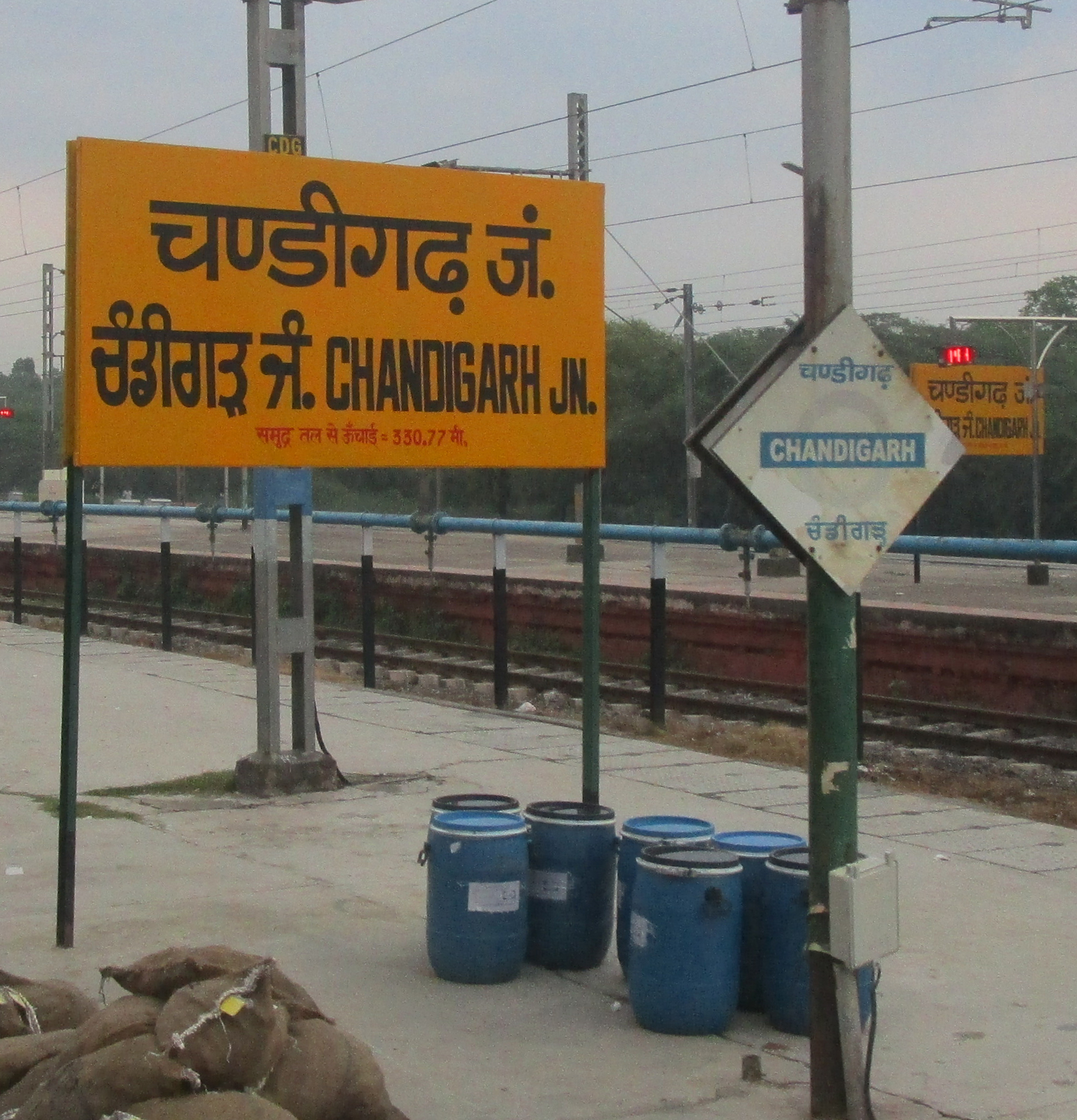 Chandigarh Junction railway station